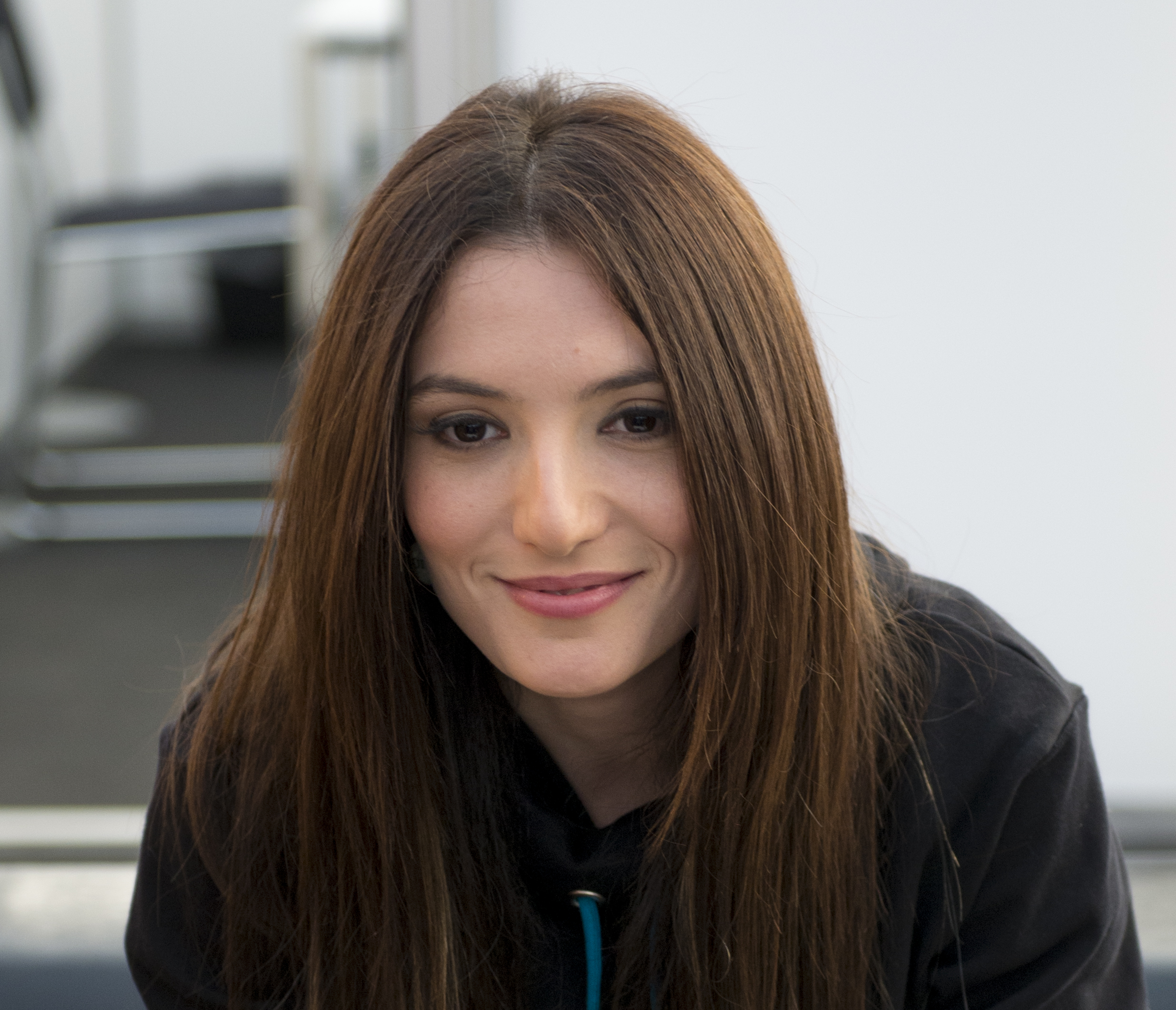 Dilara Kazimova at a Meet & Greet during the Eurovision Song Contest 2014 Copenhagen. (Help translate this text)